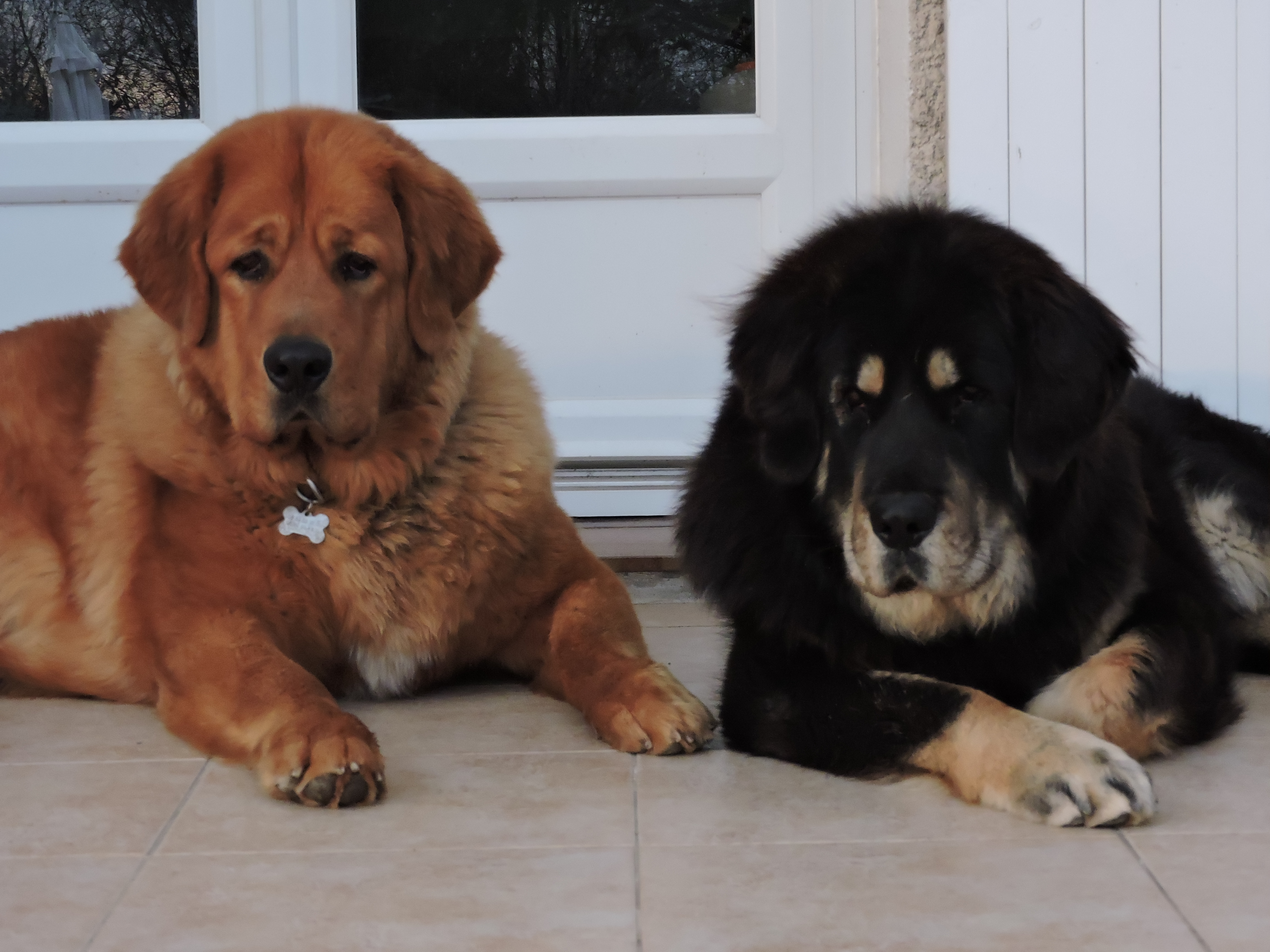 MASTIFF TIBETANN DOGUE DU TIBET DO-KHY